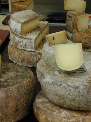 Cheese on a market in Basel, Switzerland